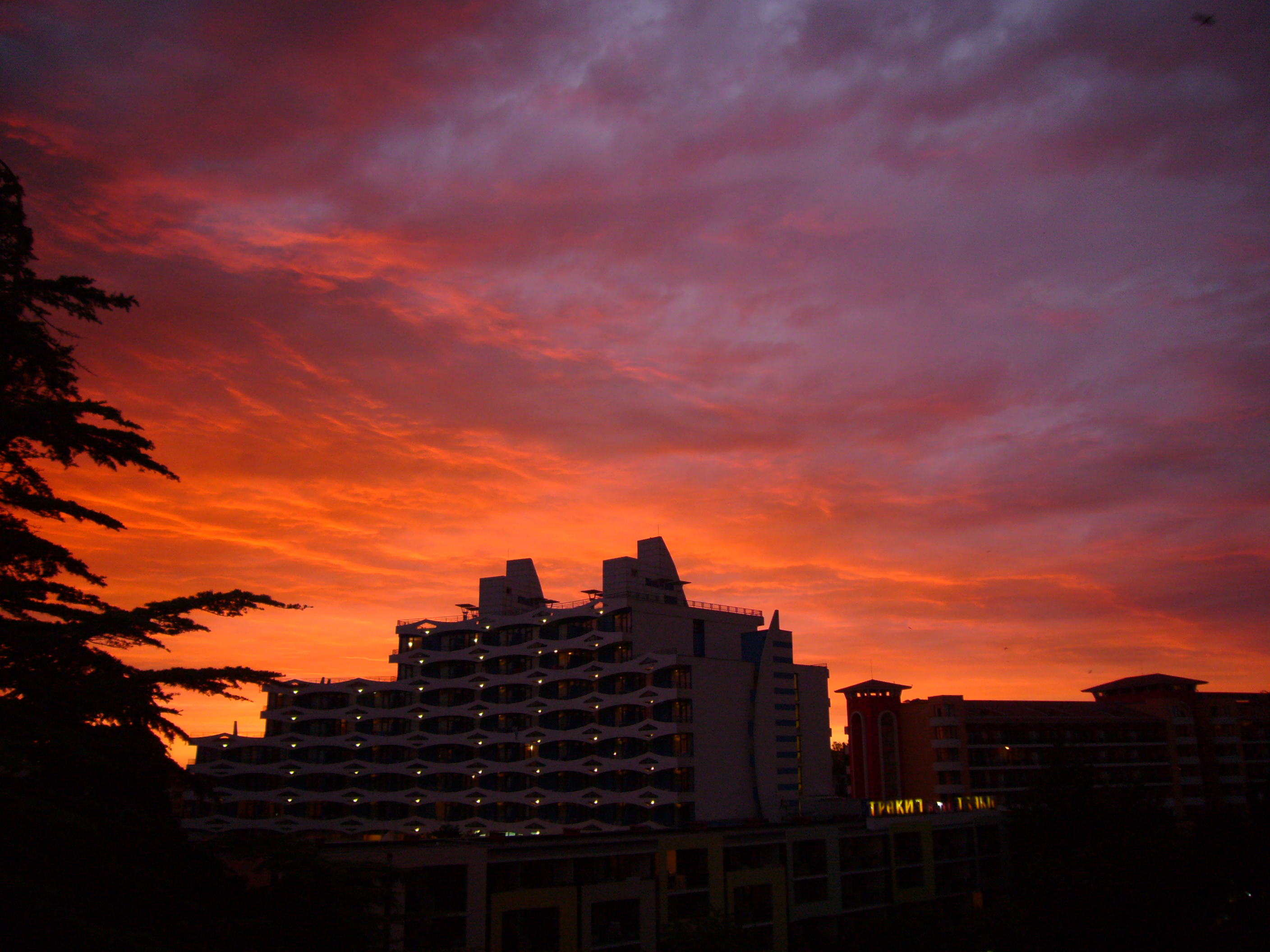 View from the Baikal Hotel at night (Sunny Beach-Bulgaria).